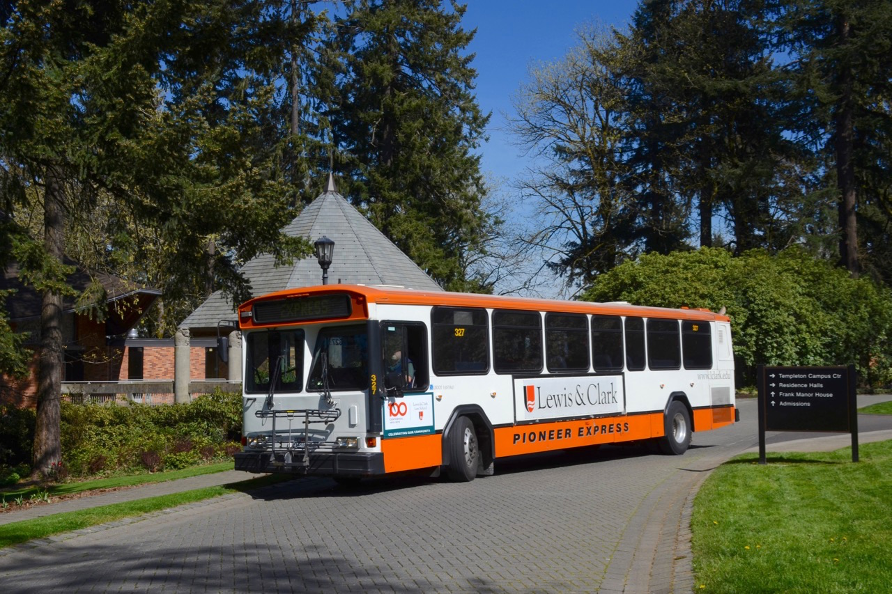 Pioneer Express bus 327 turning onto Frank Manor Drive, on the campus of Lewis & Clark College, at the beginning of a trip to downtown Portland, Oregon. Bus 327 is a 1996 Gillig Phantom diesel bus, ex-King County Metro (Seattle) 3276. It was acquired secondhand in 2014 by ECOShuttle, which provides the Pioneer Express bus service under contract with Lewis & Clark College. Its ECOShuttle fleet number was created simply by dropping the last digit of its Seattle fleet number (and removing the "6" decal in several locations on the exterior of the bus).